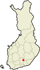 Location of the town of Heinola, Finland